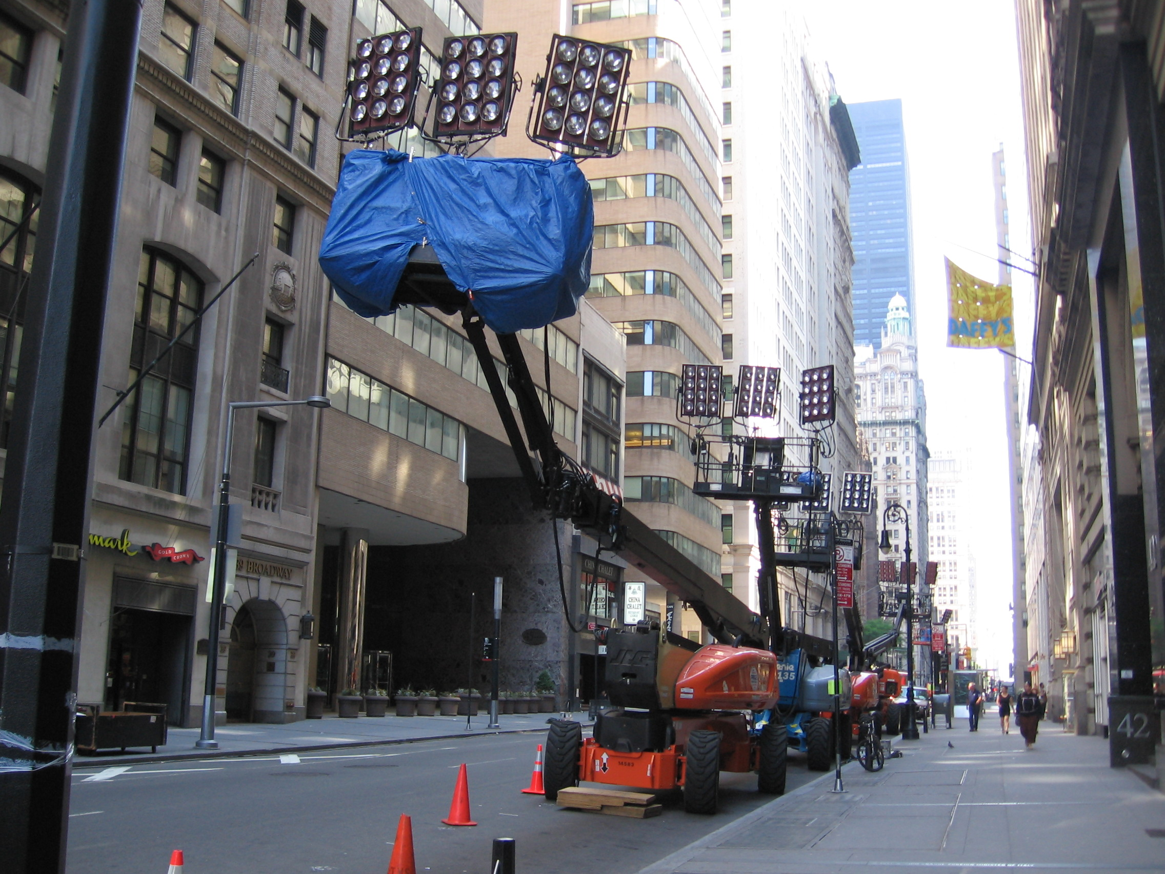 Lighting equipment used for the 2010 film Sorcerer's Apprentice, parked on the east side of lower Broadway between Bowling Green and Exchange Place.